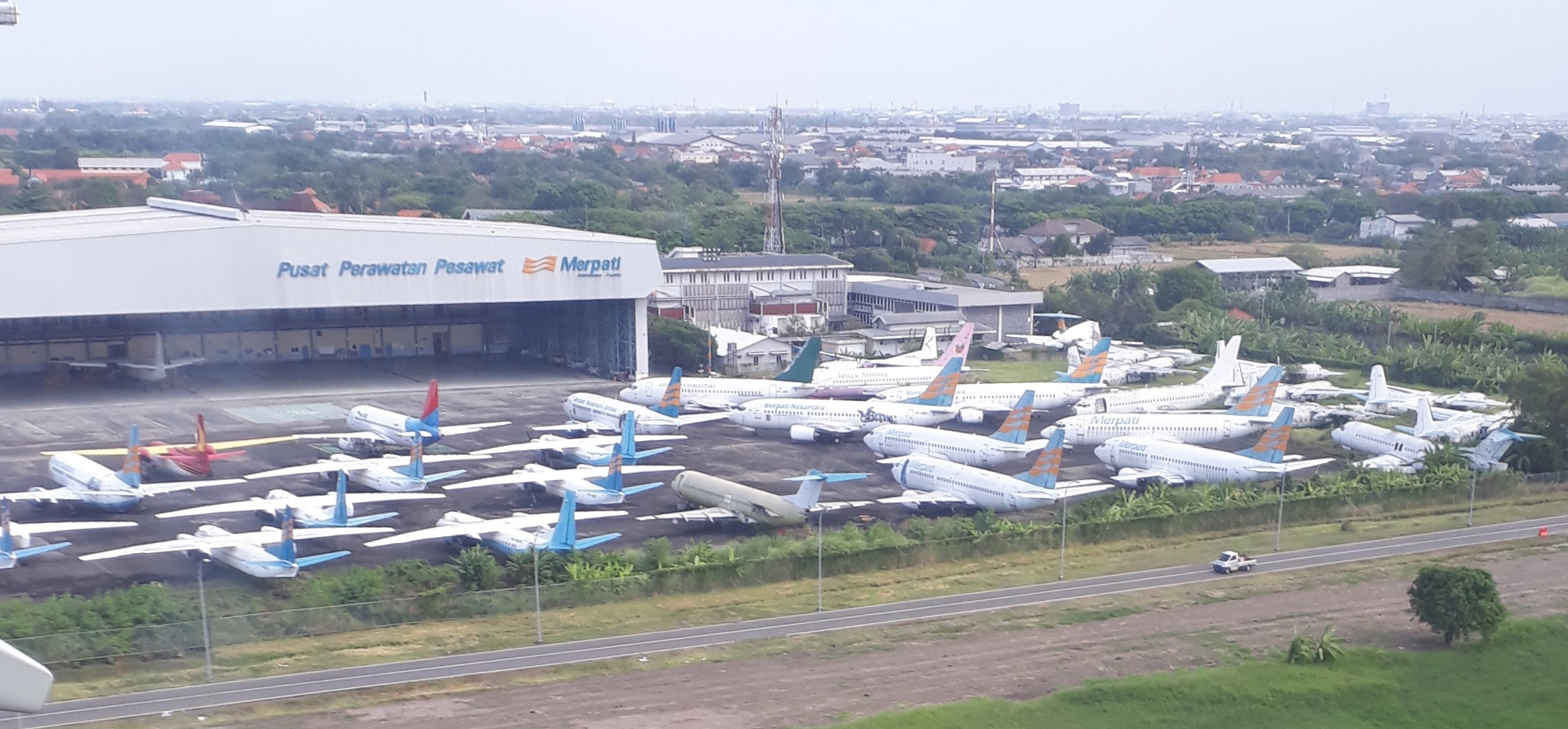 The fleet of defunct Indonesian airline Merpati stored at the company's maintenance facility at Juanda Airport, Surabaya